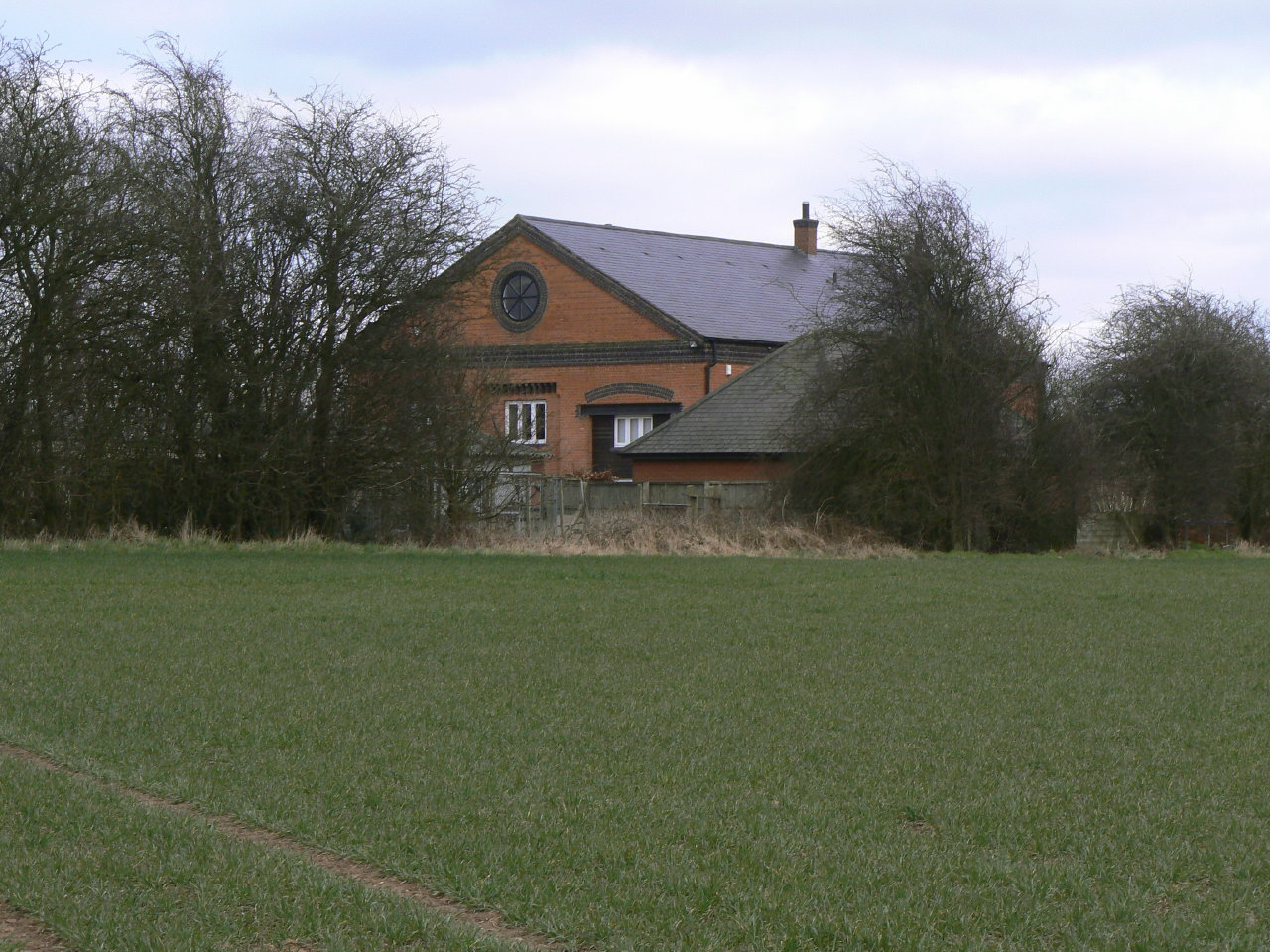 Snarestone House Residential conversion of the old railway goods shed at Snarestone Station.